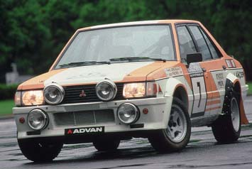 Lancer EX 2000 Turbo 1000 Lakes Rally Car. Category:Images of automobiles